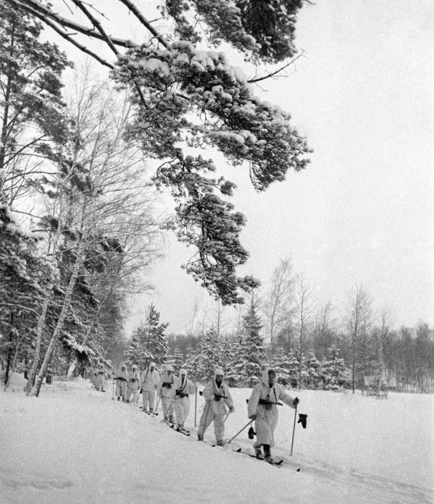 “Reconnaissance officers”. Reconnaissance officers setting out on a mission